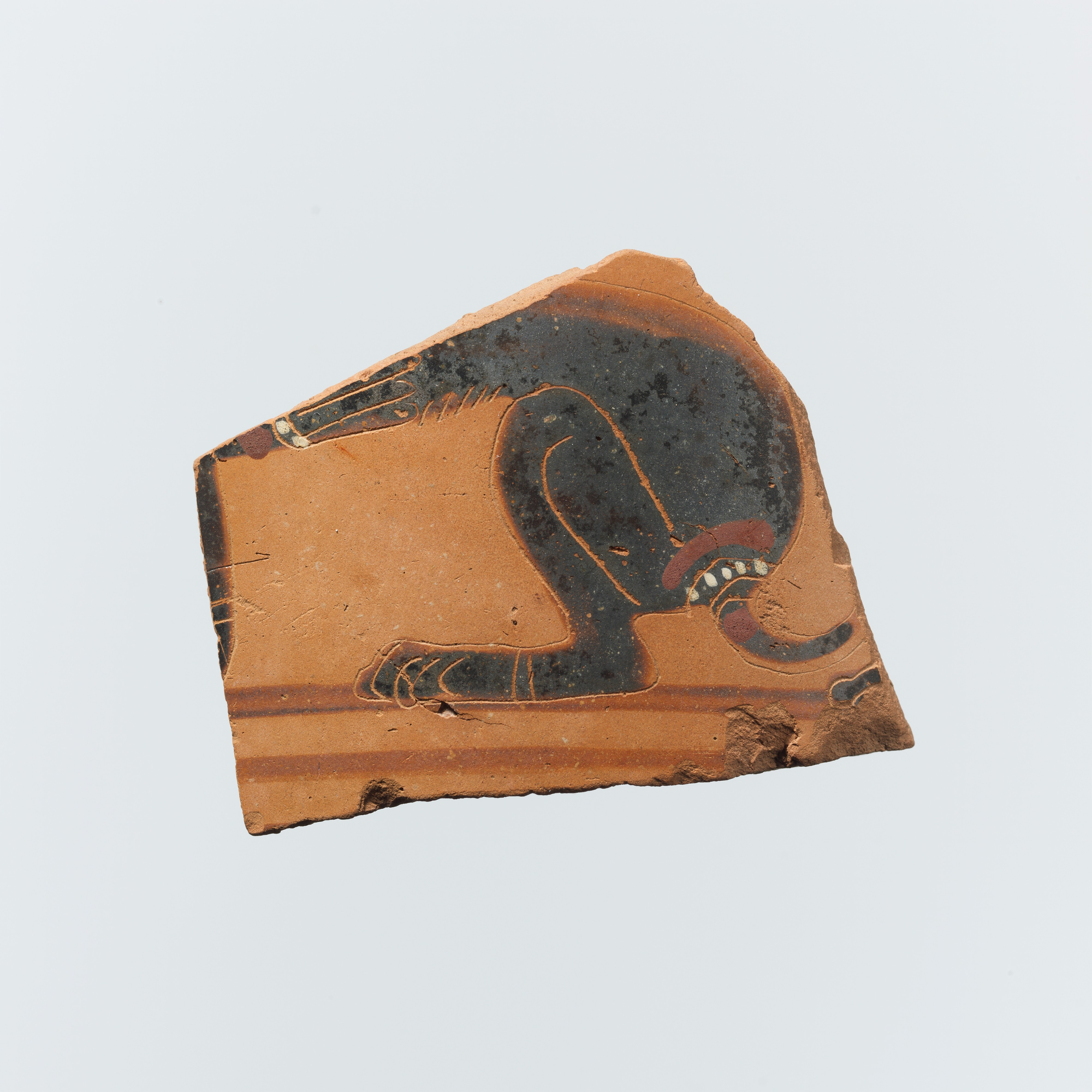 Sphinx. The use of white dots for articulation is characteristic of Clazomenian vase-painting.